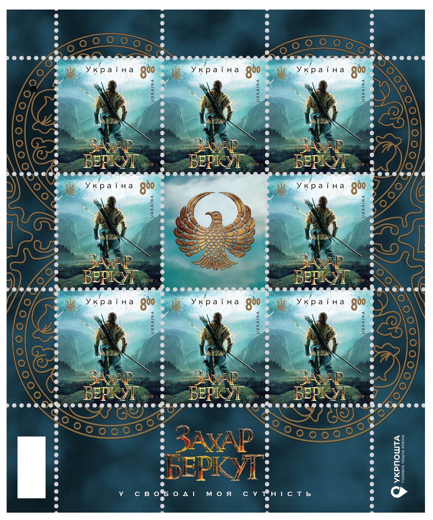 2019 Ukraine Stamp